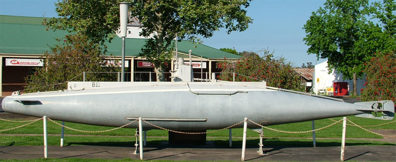 A scale model of British submarine HMS B11 in Holbrook, NSW, Australia. The town of Holbrook was renamed from Germanton in honour of B11's commander, Norman Douglas Holbrook, VC, in 1915.